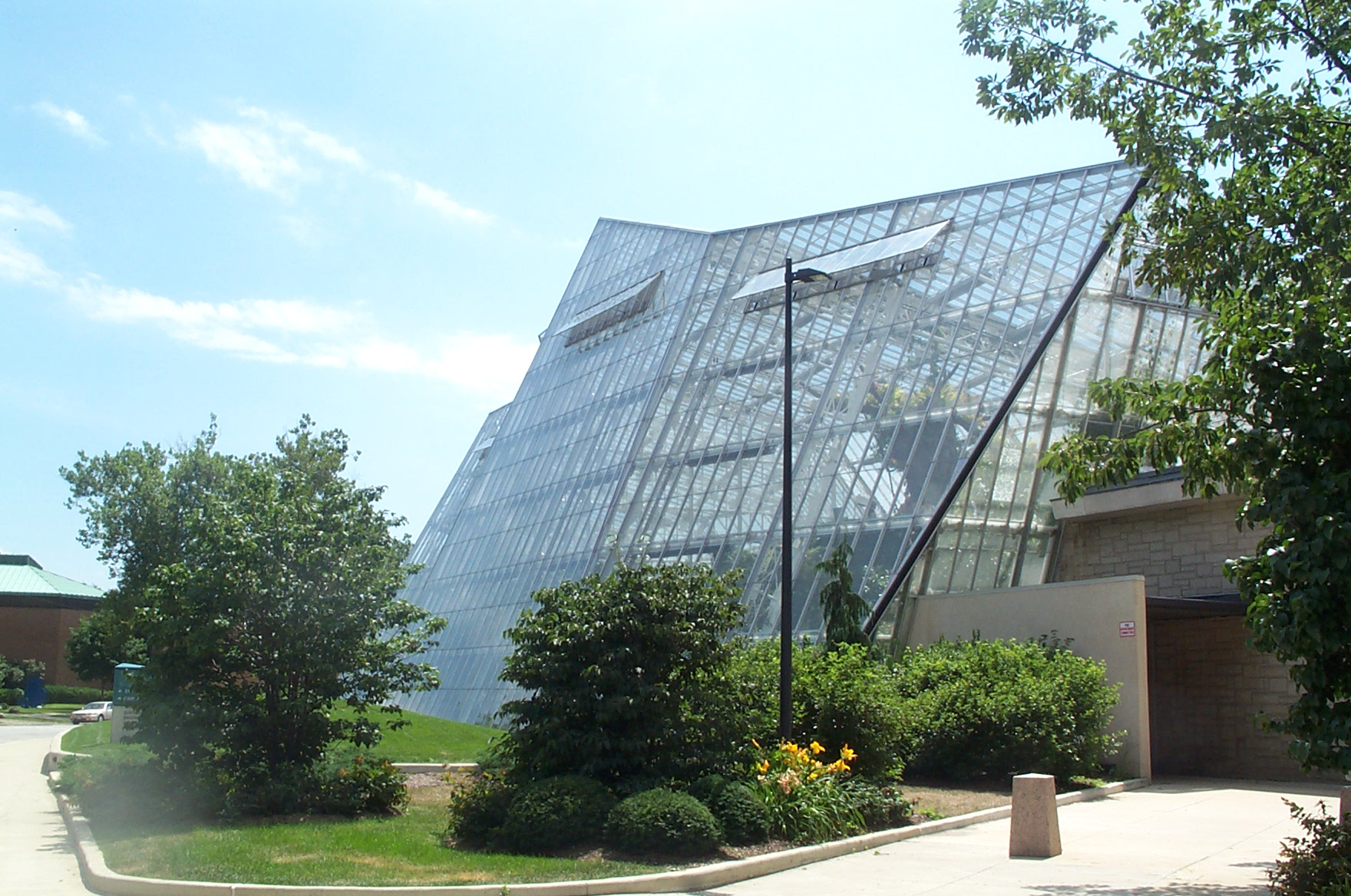 Cleveland Botanical Garden